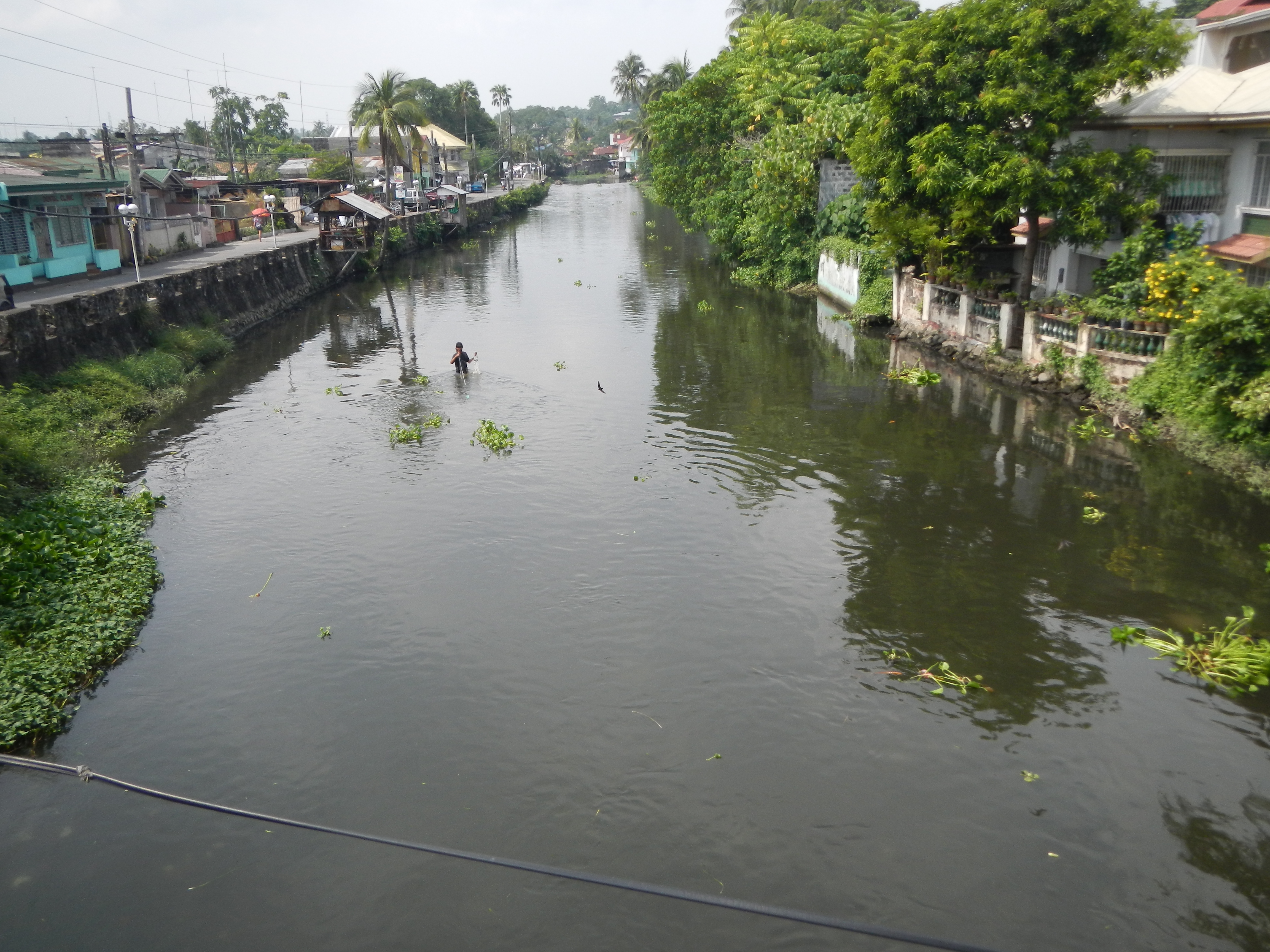 Pansipit bridge - downtown (boundary of Taal, Batangas[1] and Lemery, Batangas[2]) view of eight-kilometer Pansipit River [3] - is a short river located in the Batangas province of the Philippines. The river is the sole drainage outlet of Taal Lake, which empties to Balayan Bay. The river stretches about 9 kilometres (5.6 mi) passing along the towns of Agoncillo, Lemery, San Nicolas and Taal serving as border between the communities. It has a very narrow entrance from Taal Lake. [4] [5] Photo taken in Lemery, Philippines 13° 53' 48.28" N 120° 54' 46.32" E[6] [7]Coordinates: 13°52'40"N 120°55'2"E [8]13° 55' 37.15" N 120° 56' 46.21" E[9] Summer heat arrives in Lemery, Batangas [10] Batangas tilapia breeders fight for survival